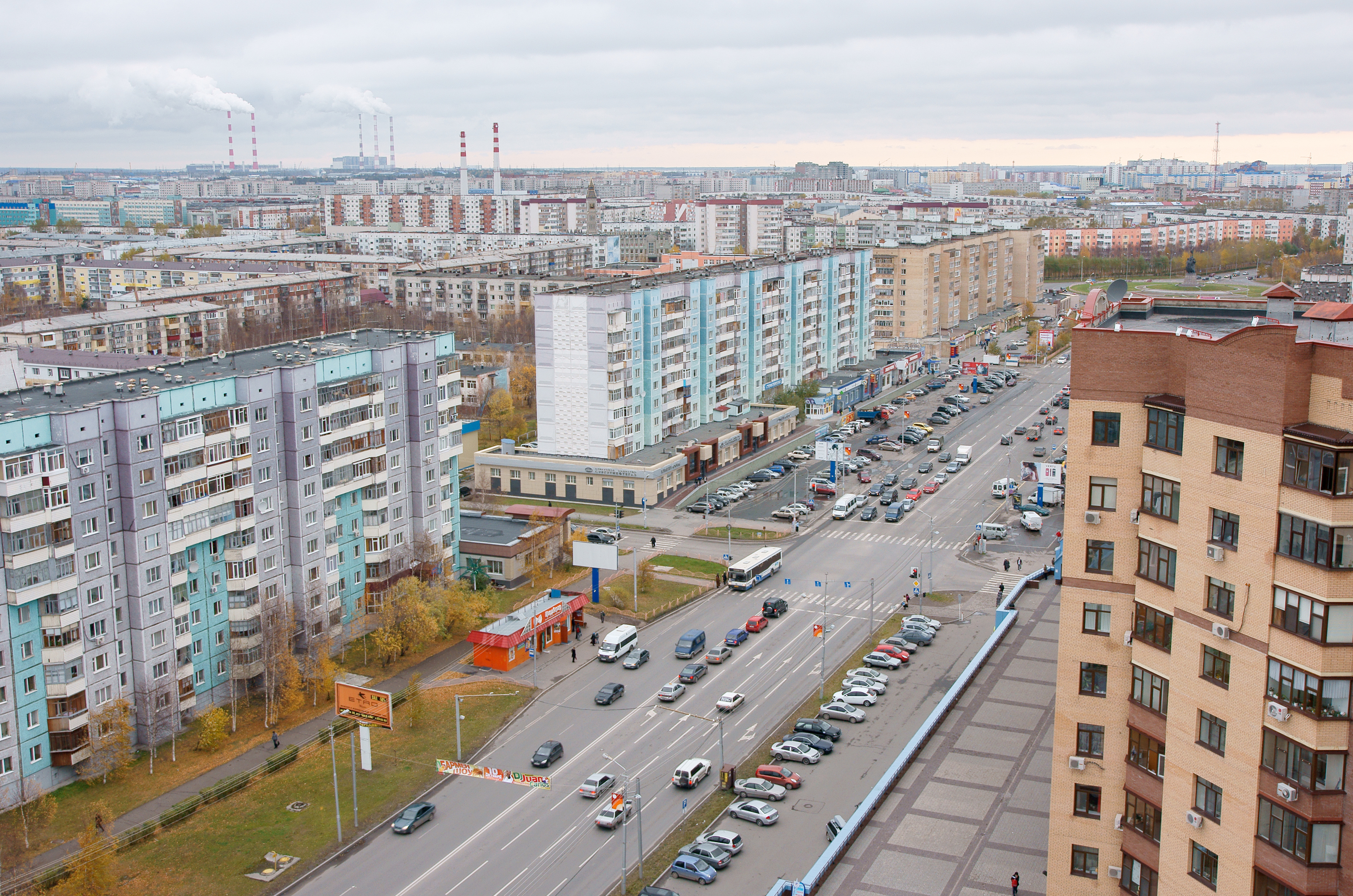 Lenin st., Surgut, Russia.